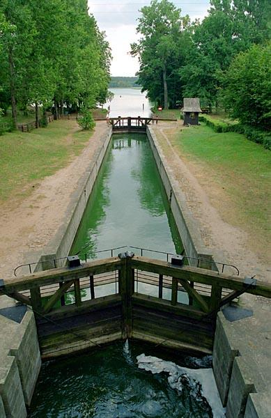 Augustow Channel in Podlesie (Poland)